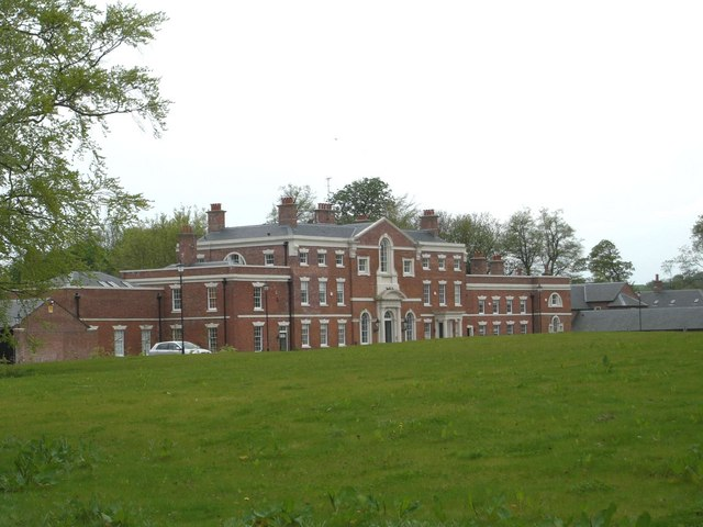 Lawton Hall. Lawton Hall was originally built in the 17th century. More recently it had been a private school but with the closing of the school 1986 it fell into disrepair and was scheduled for demolition. It has now been restored and converted into luxury apartments.